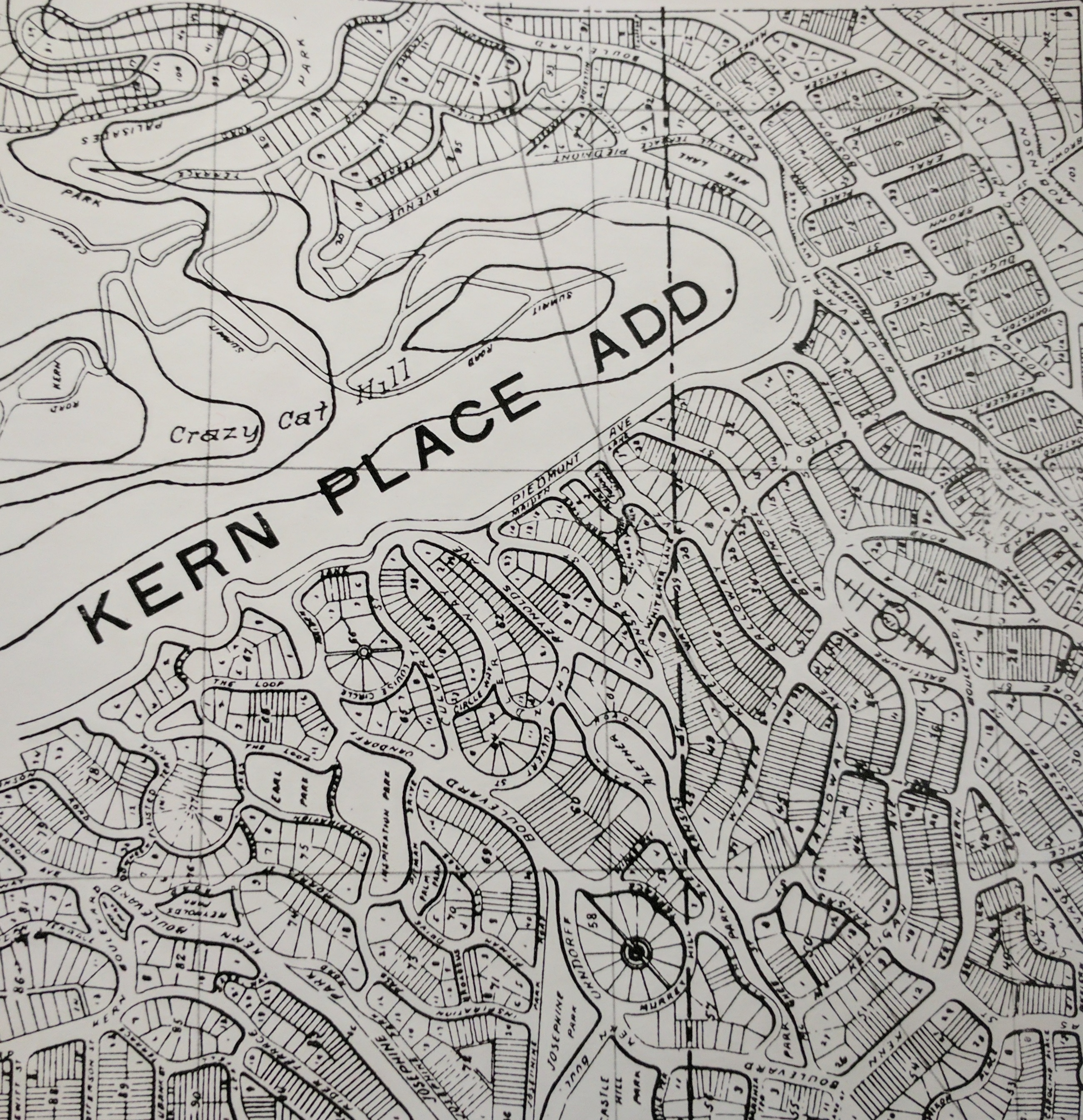 Kern Place addition map, 1914, from the Feldman map.